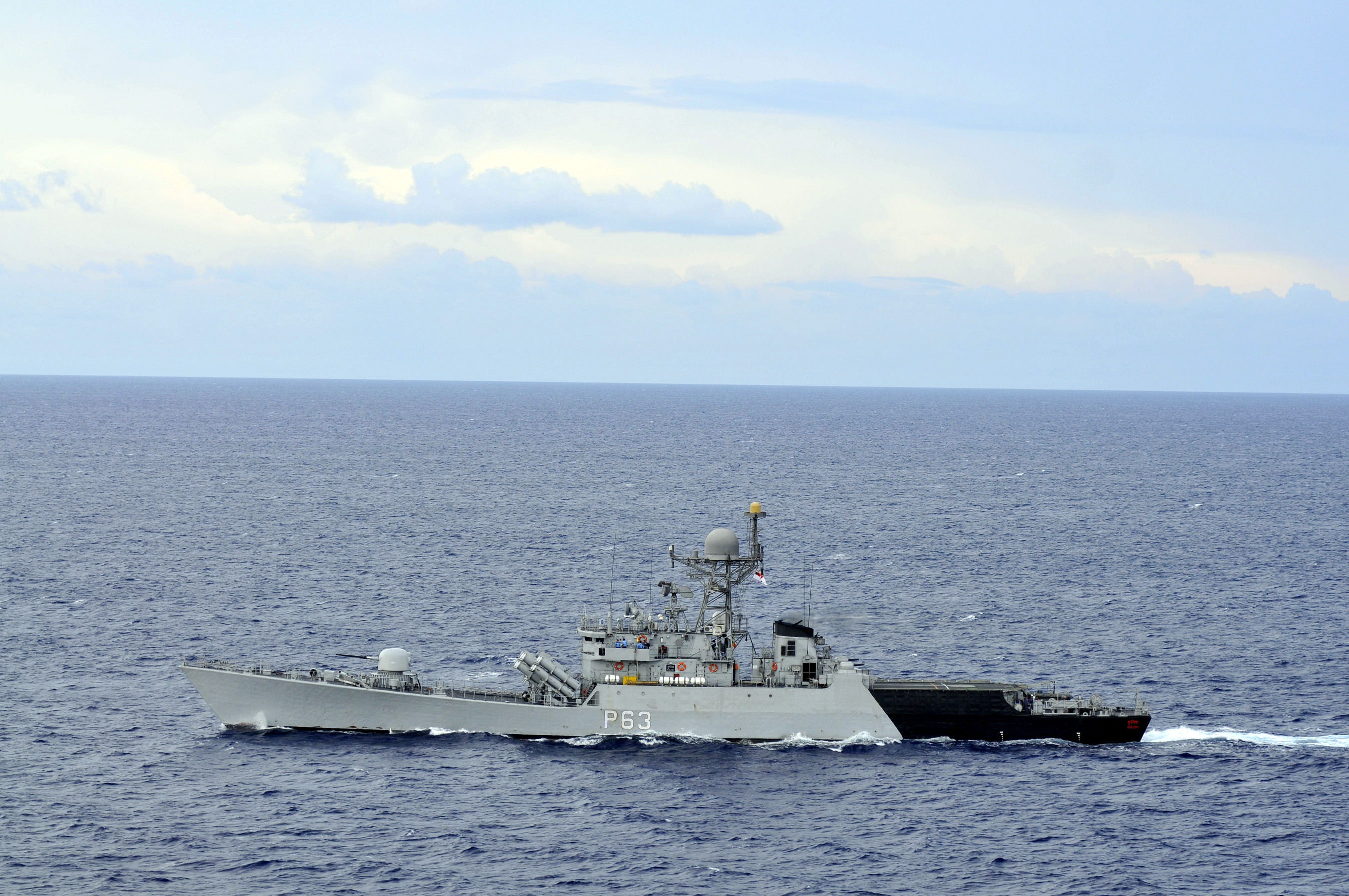 The Indian navy guided-missile corvette INS Kulish (P63) is underway in formation with Carrier Strike Group (CSG) 1 during Exercise Malabar 2012.